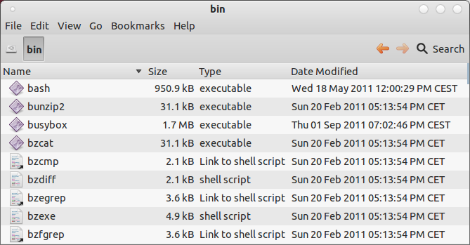 This image illustrates Zebra striping. It is a screenshot from Nautilus (by GNOME Foundation) using the Zukitwo theme (by Lars Kongo)